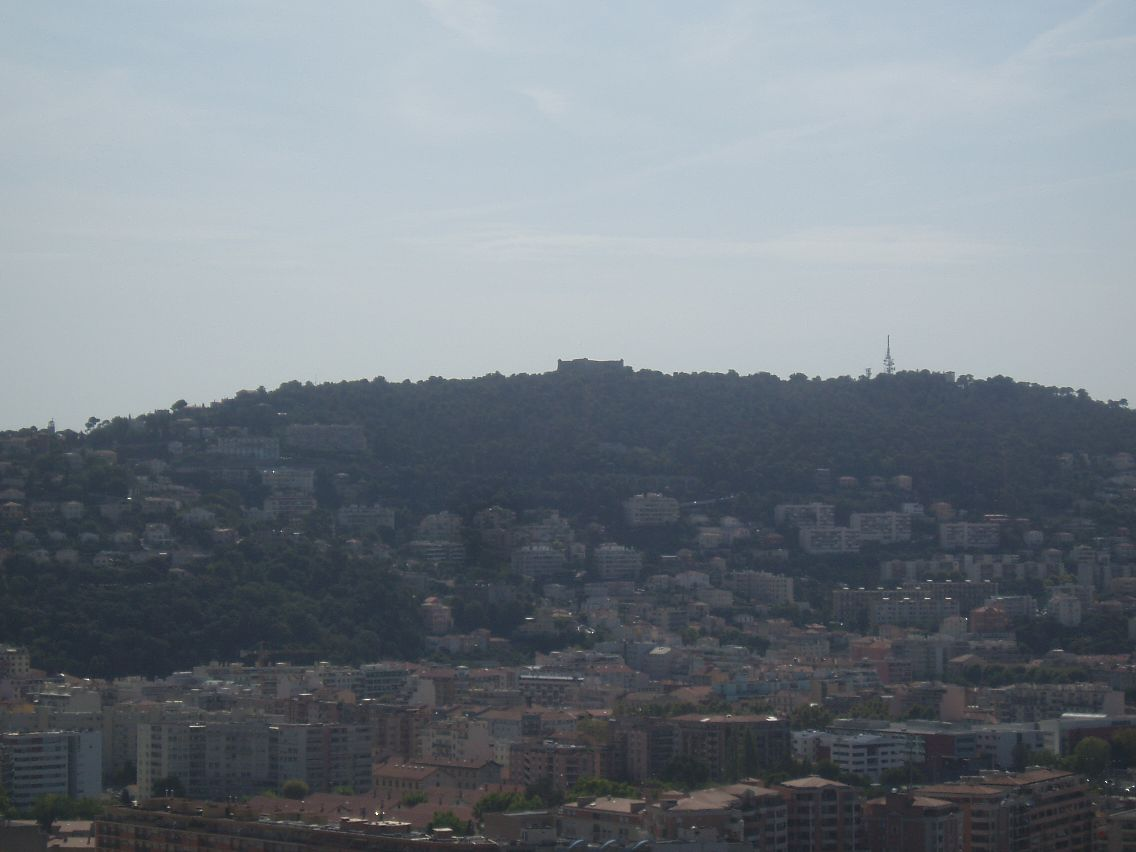 Mont Alban east of Nice